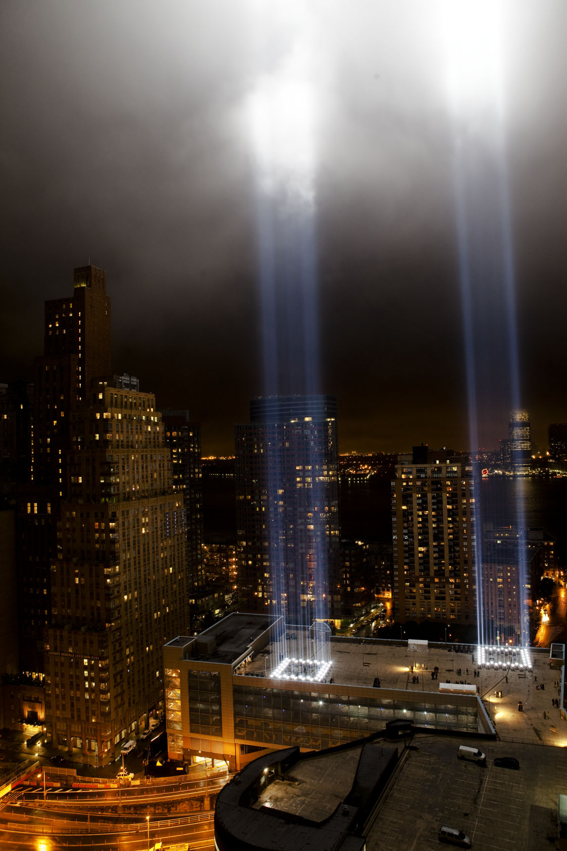 Towers of Light, Sept. 11, 2009, from the ProPublica office on Category:One Exchange Plaza